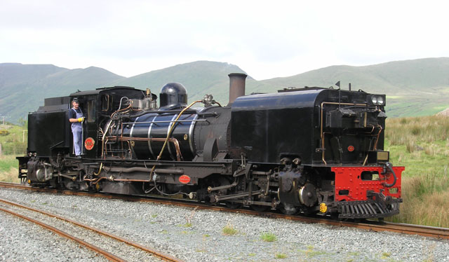 A Garratt locomotive, ex-SAR type NGG16 at Rhd Ddu station of the Welsh Highland Railway. This railway (like the Ffestiniog) uses articulated locos because of the tight turns on the line